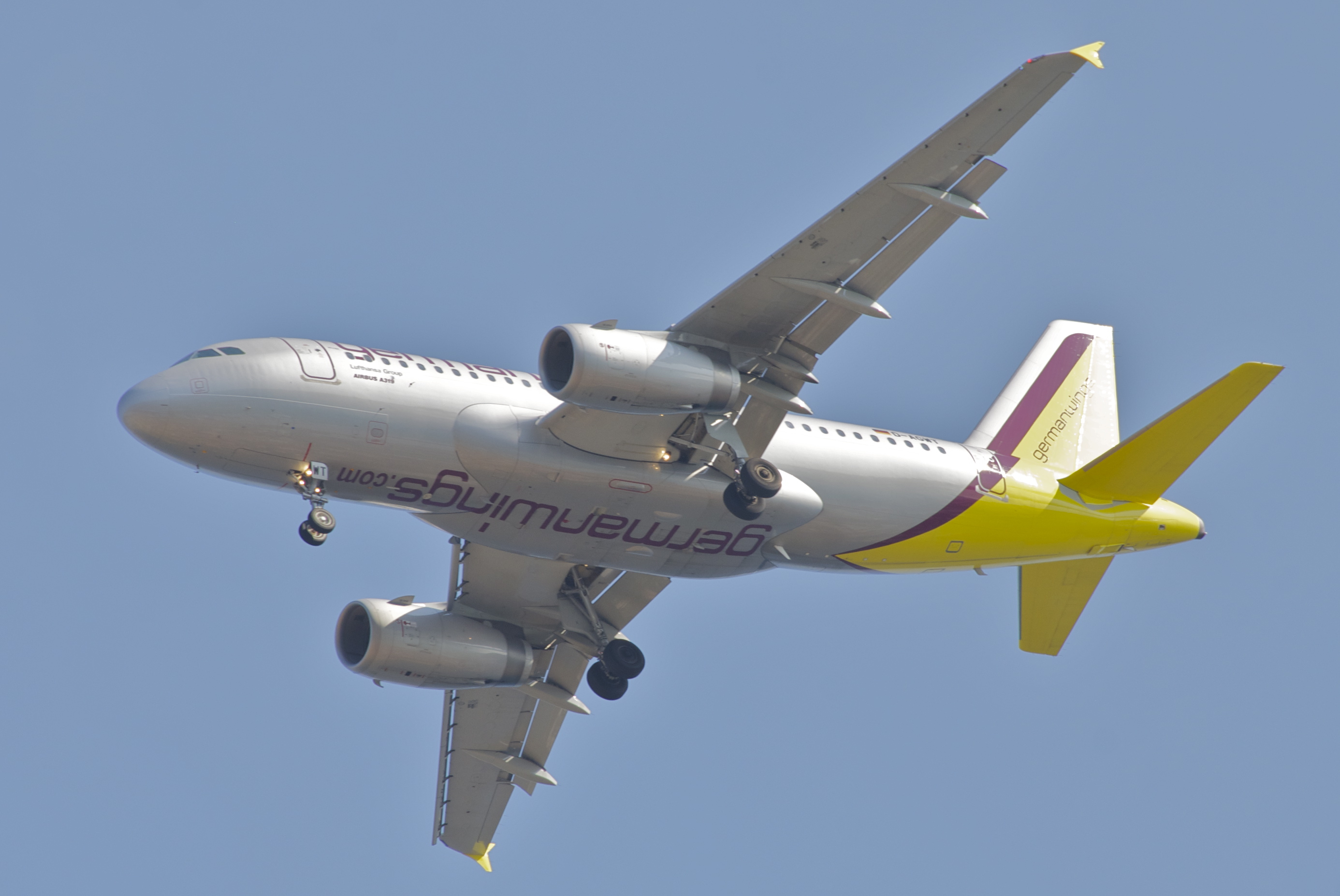 Arriving as 4U8988 from SXF... First flight: February 15, 2012 and delivered to 4U on February 24, 2012...(c/n 5043)